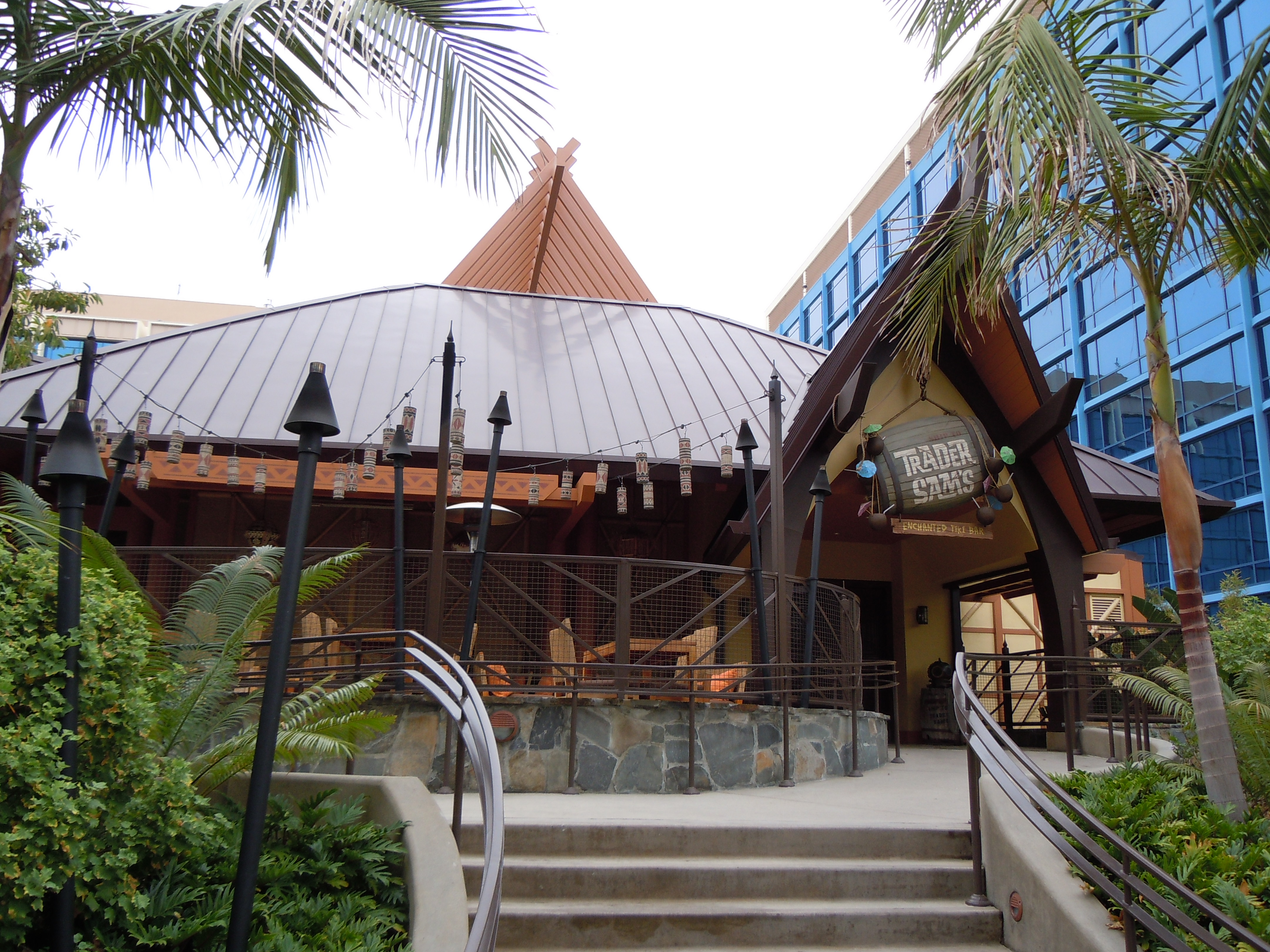 Trader Sam's Enchanted Tiki Bar at the Disneyland Hotel at the Disneyland Resort, Aneheim, California, United States.